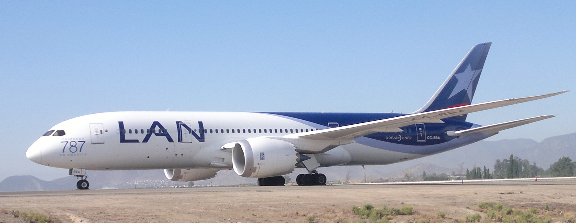 First B787 Dreamliner received by Lan Airlines.